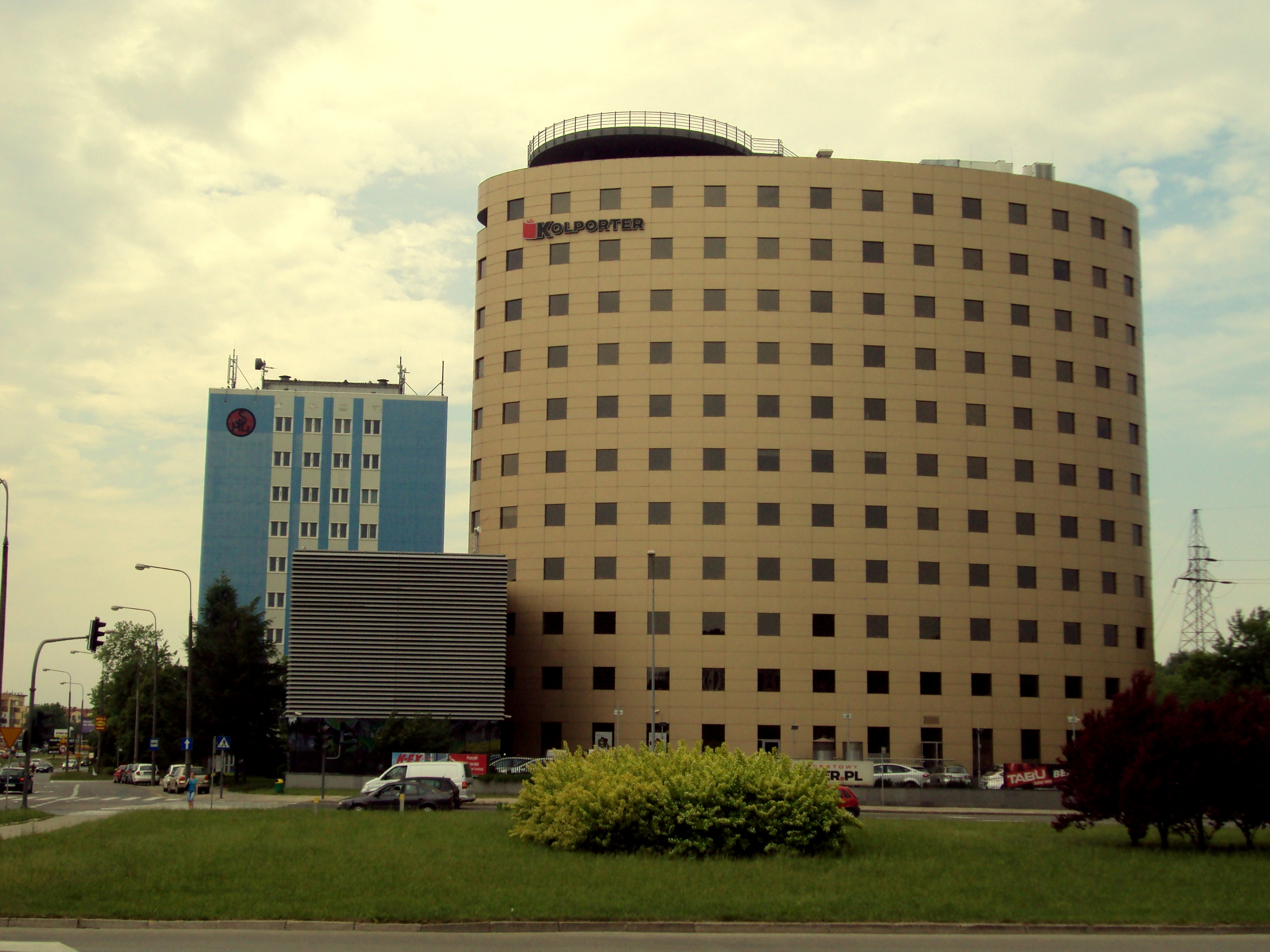 Siedziba kolporter s.a.